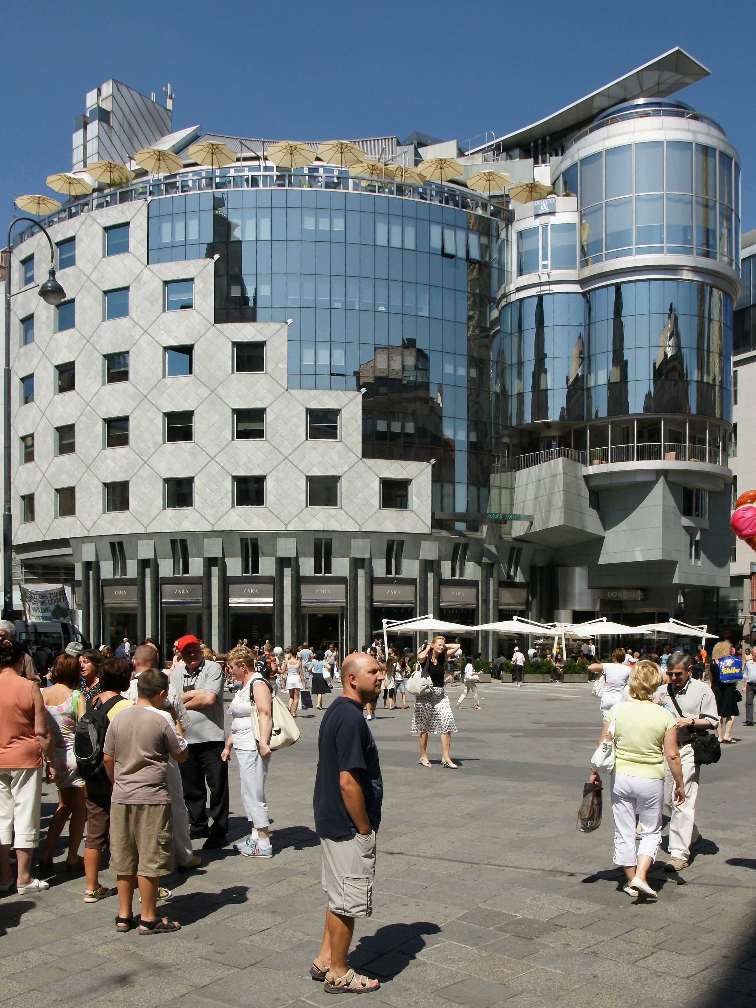 Austria, Vienna, Stephansplatz